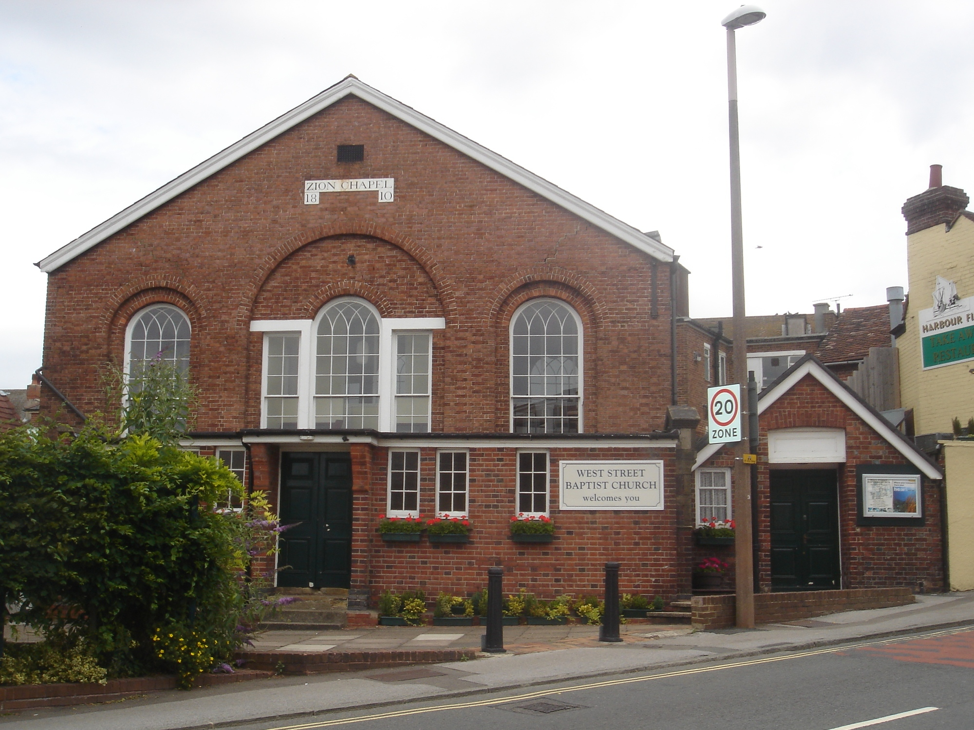 West Street Baptist Church, West Street, East Grinstead, District of Mid Sussex, West Sussex, England. Formerly the Zion Chapel (as shown on the legend below the roof), and built in 1810. Listed at Grade II by English Heritage (IoE Code 430884)